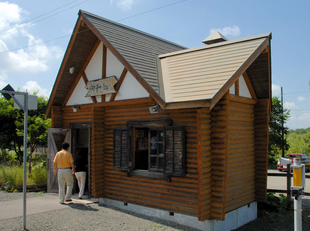 JR Hokkaido Hosooka Station